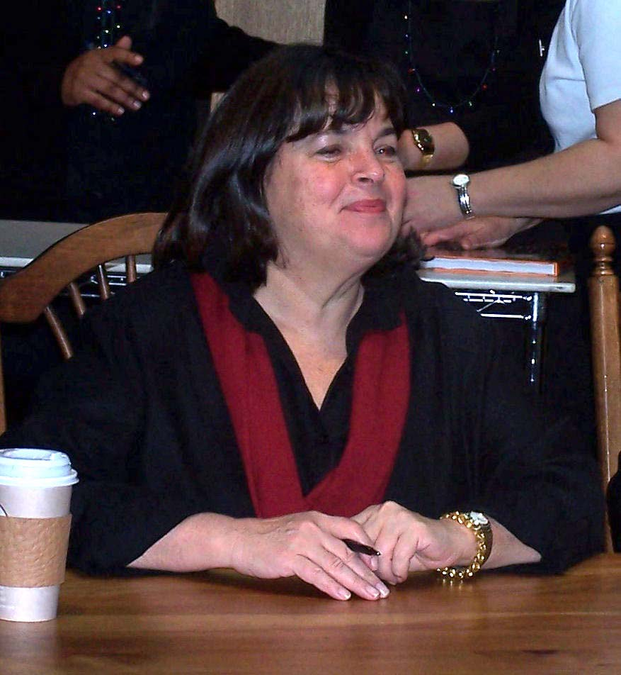 Ina Garten at a book signing in Chapel Hill, NC